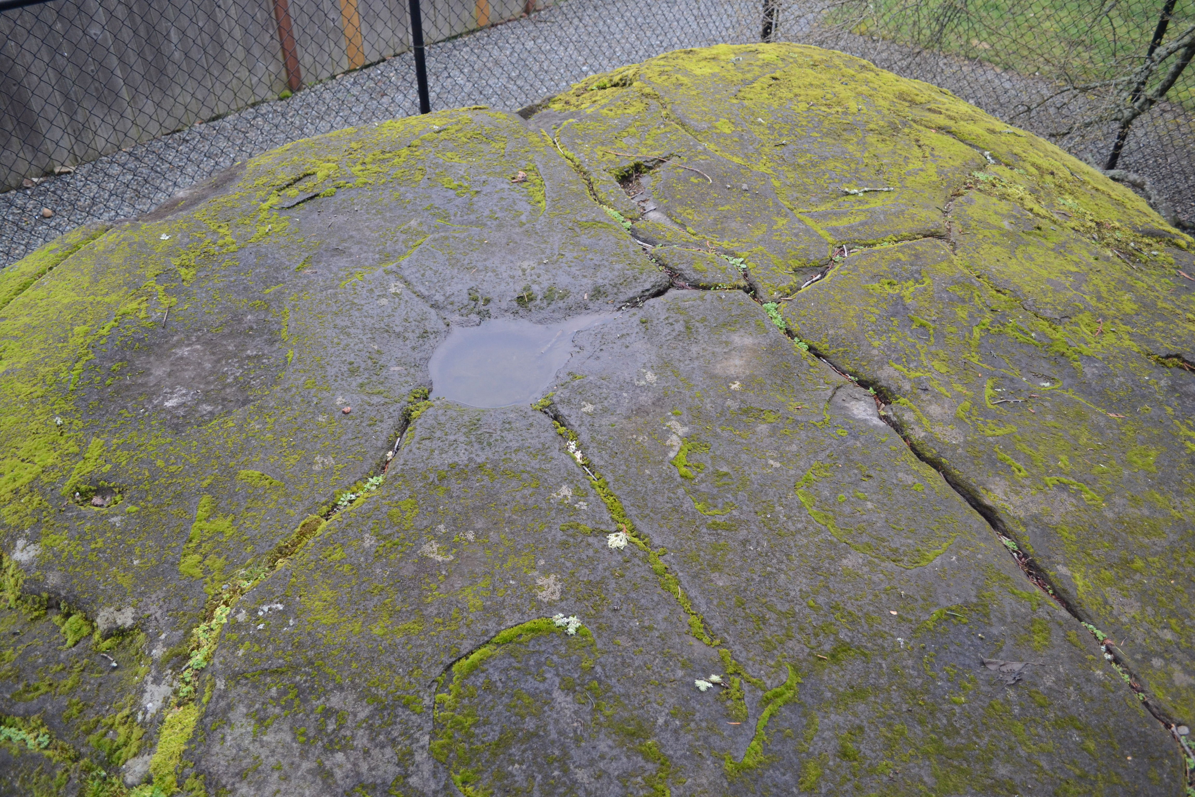 Image of a large pit on the top of Skystone.